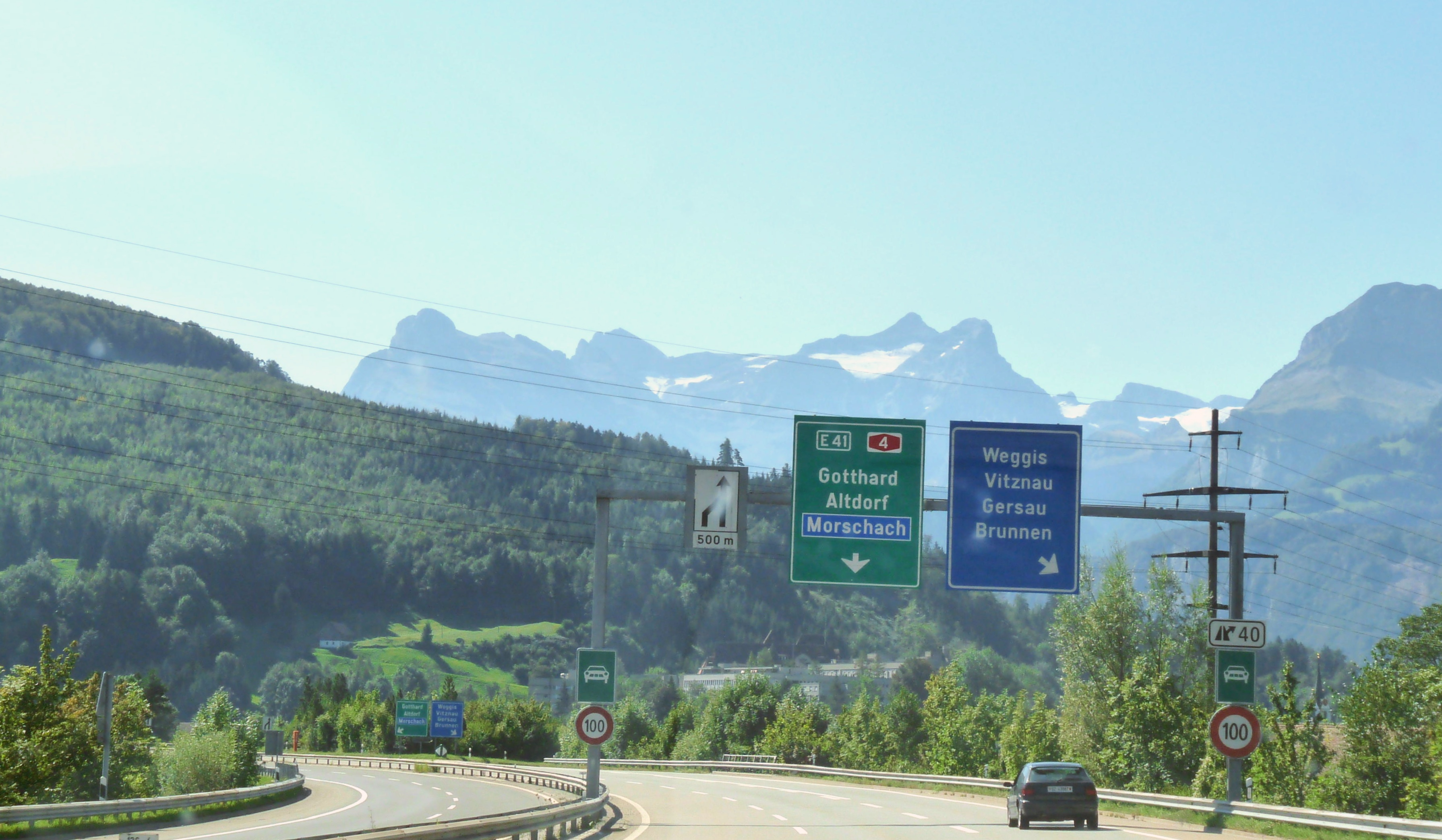 Swiss road A4 near Brunnen